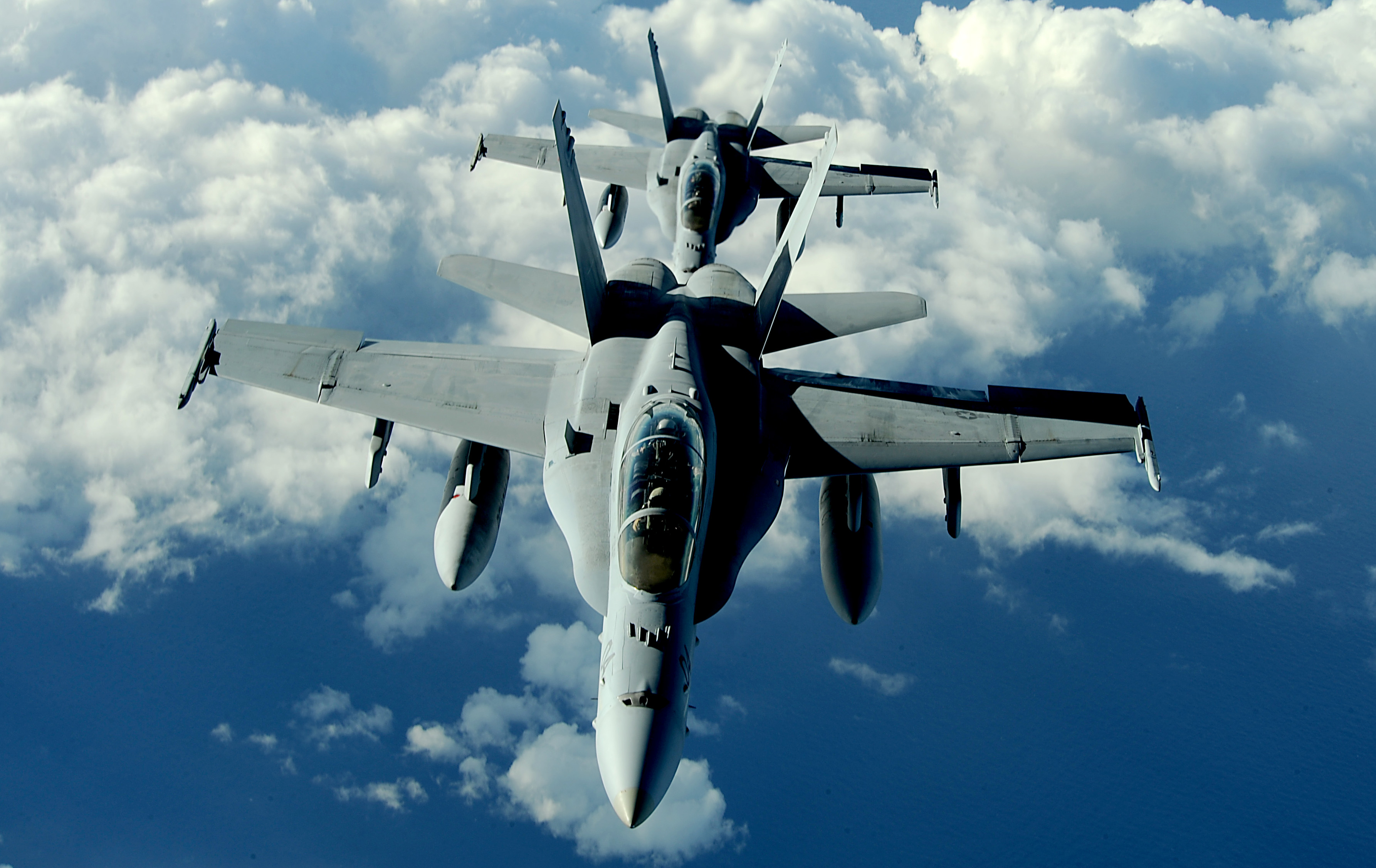 PEARL HARBOR (July 9 2010) Two F/A-18 Hornets assigned to the Fighting Bengals of Marine All Weather Fighter Attack Squadron (VFMA (AW)) 224 fly next to a KC-135 stratotanker assigned to 465th Air Refueling Squadron, 507th Air Refueling Wing, after receiving fuel during a refueling mission supporting Rim of the Pacific (RIMPAC) 2010 exercises. RIMPAC is a biennial, multinational exercise designed to strengthen regional partnerships and improve multinational interoperability. (U.S. Air Force photo by Master Sgt. Jeremy Lock/Released)